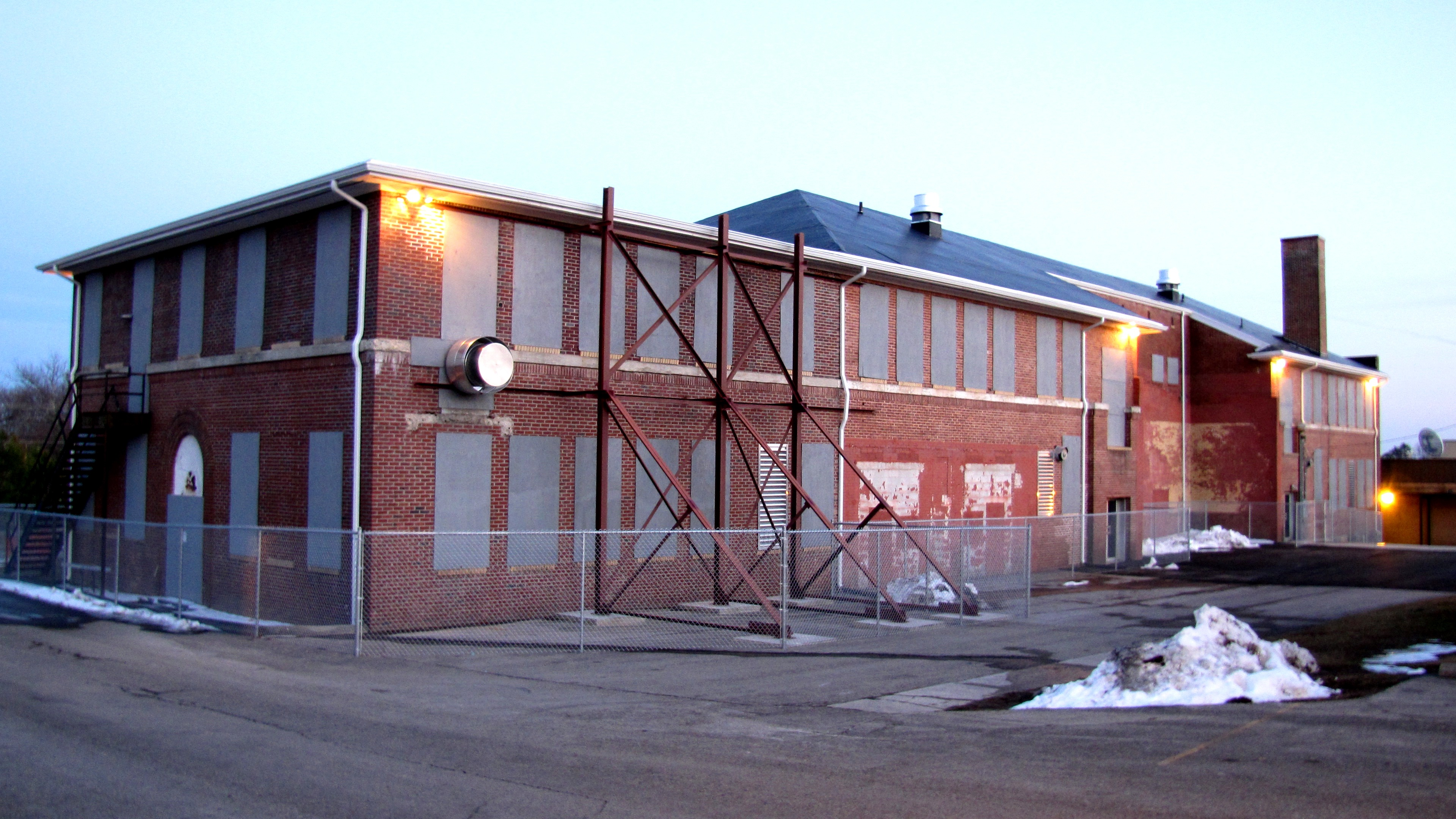 The older section of York Institute in Jamestown, Tennessee, USA. Established through the efforts of Sergeant Alvin C. York (who lived up the road Pall Mall), the school has been listed on the National Register of Historic Places.